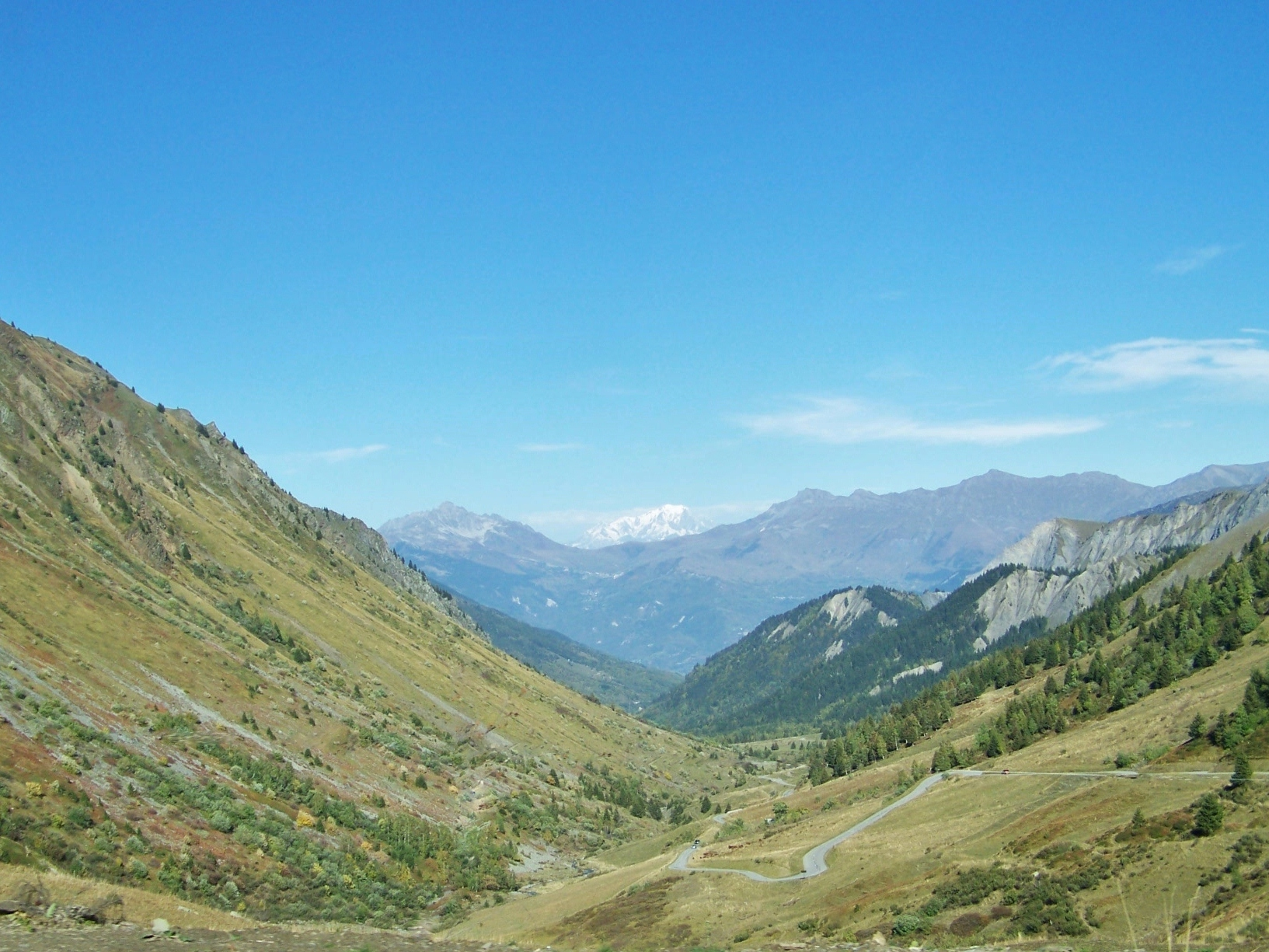 Sight of Alpage de Sous le Col alpine toundra, below the col du Glandon pass in Savoie, France. At the background can be seen the Mont-Blanc.